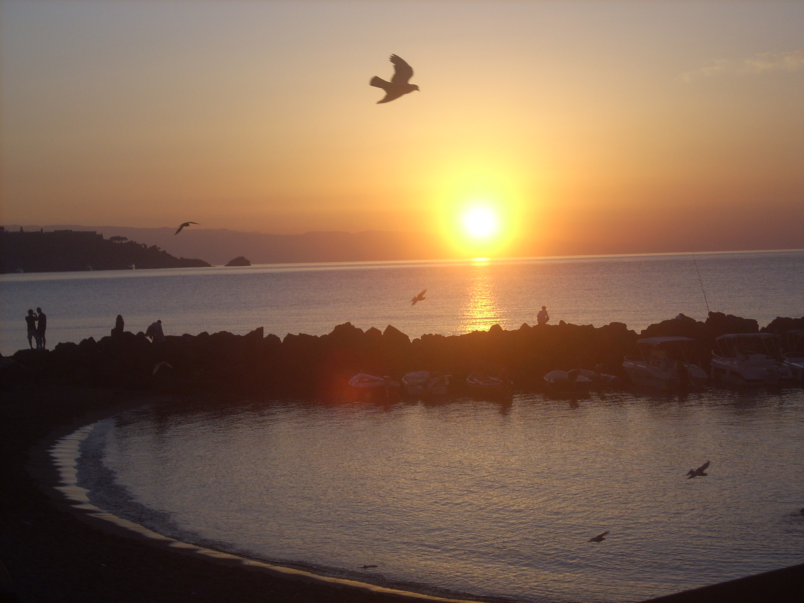 dawn at Giardini Naxos, Sicily, the morning of Ferragosto